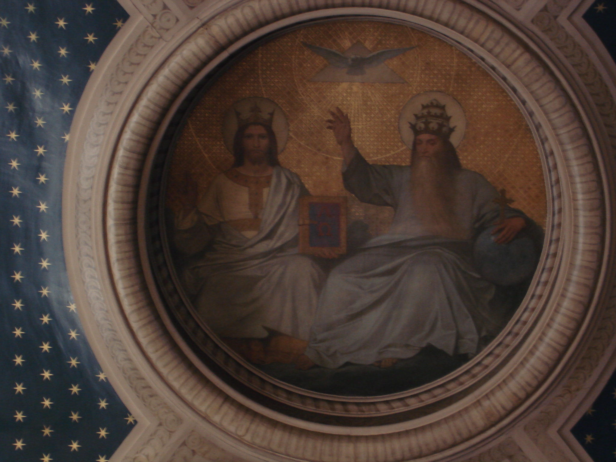 Church:Saint-Jacques-du-Haut-Pas (rue saint-Jacques - Paris Ve arrondissement). Paining of the Trinity, on the ceiling of the choir. Painting of 1868 by Auguste Glaize.